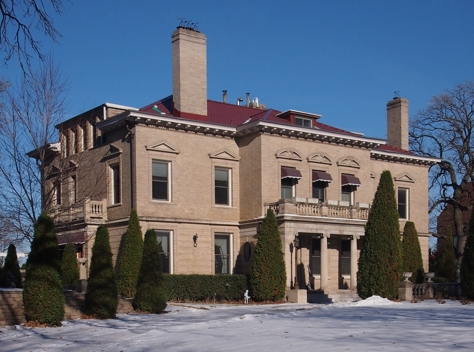 Charles J. Martin House, 1300 Mount Curve Ave, Minneapolis, Minnesota, USA. Viewed from the southwest.